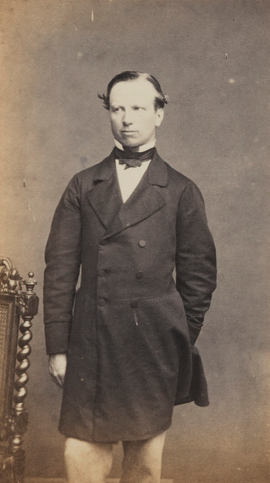 Portrait of William St Lawrence, 4th Earl of Howth (1827–1909), Irish peer, when Viscount St Lawrence.